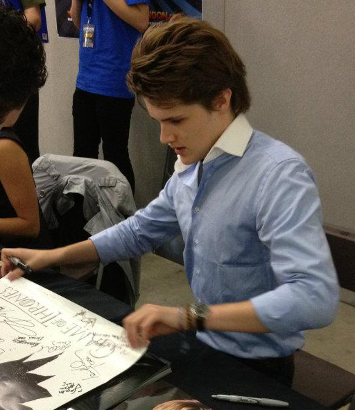 Eugene Simon (Lancel Lannister) signing the poster.